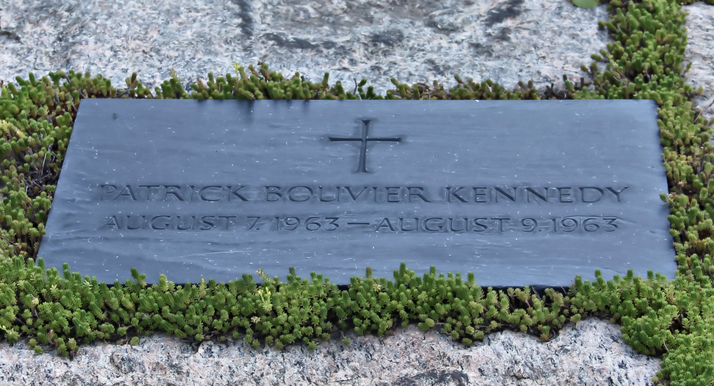 Gravestone of Patrick Bouvier Kennedy, infant son of President John F. Kennedy and his wife, Jacqueline Bouvier Kennedy, who died less than two days after his birth. Gravesite is located next to his father in Plot at Section 45 Grid U-35 in Arlington National Cemetery, Arlington, VA.